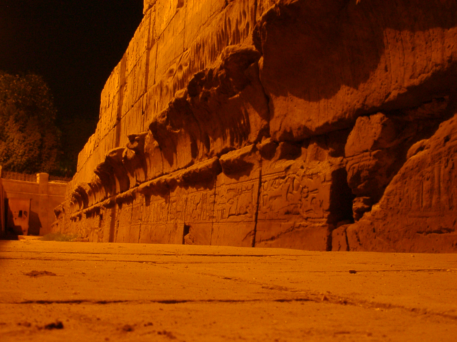 Ground level cavetto corniche of Luxor Temple